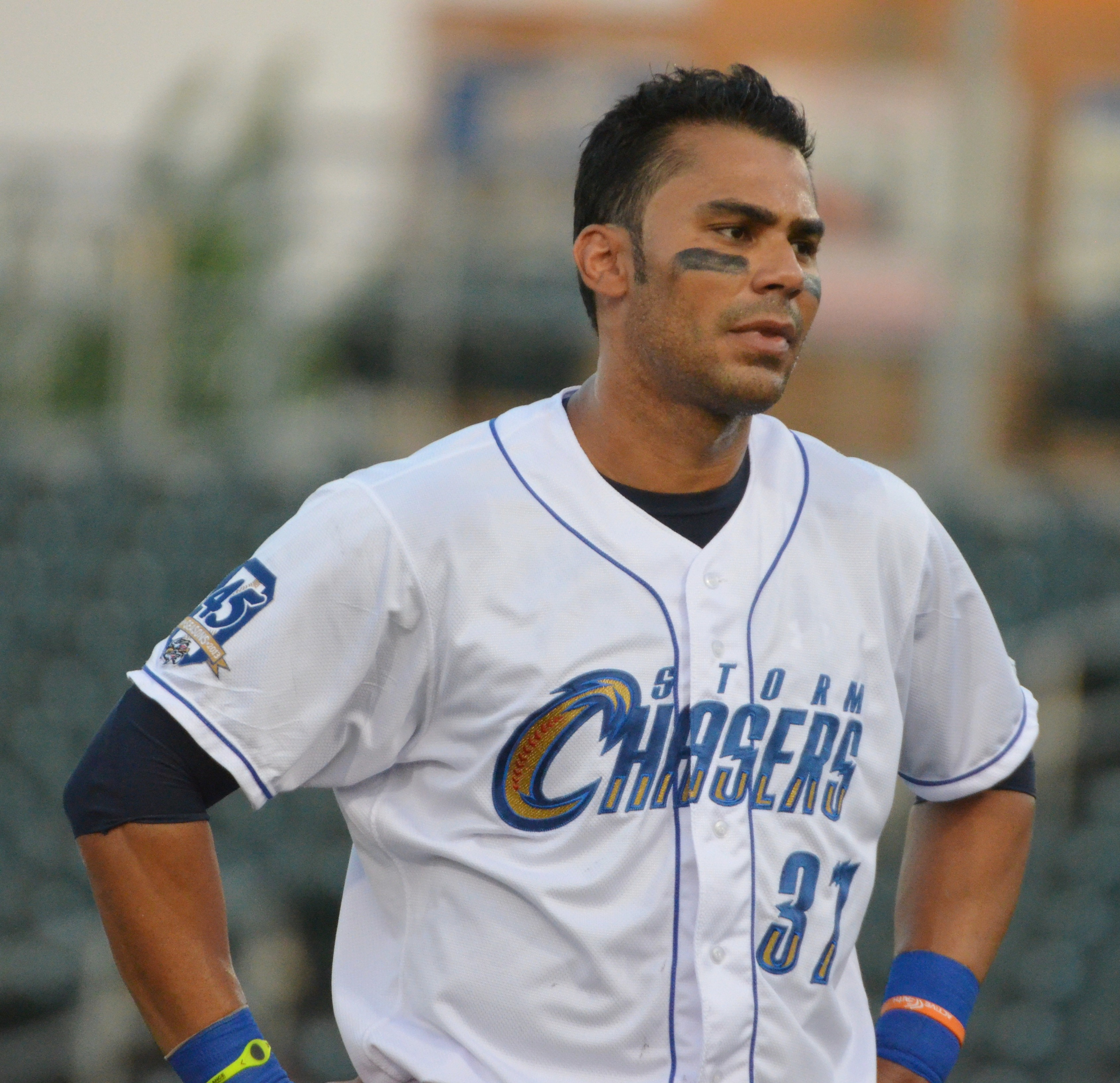 Carlos Peña 2013 in Omaha